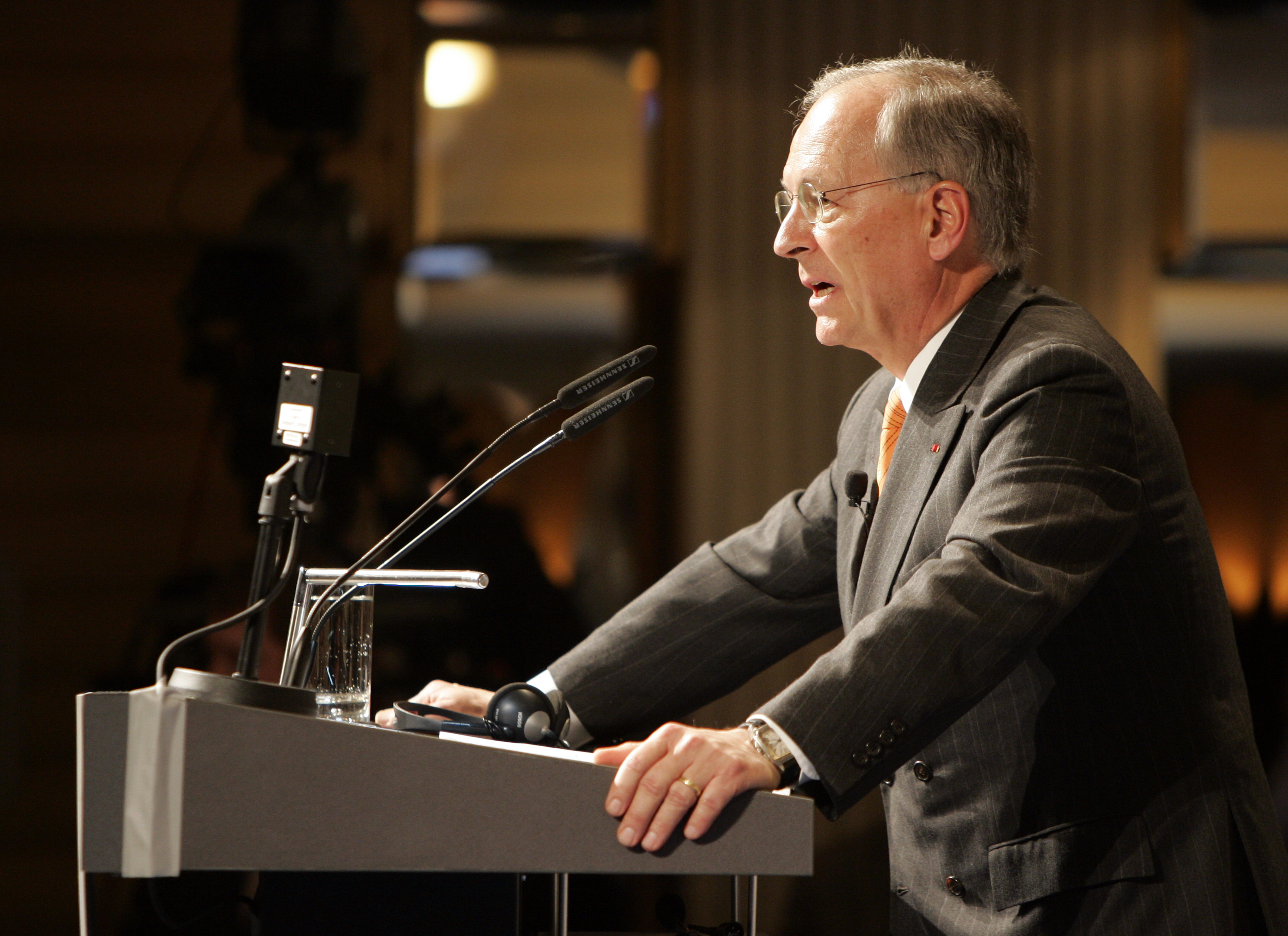 45th Munich Security Conference 2009: Ambassador Wolfgang Ischinger, Leader of the Munich Security Conference, opens the conference of this year.